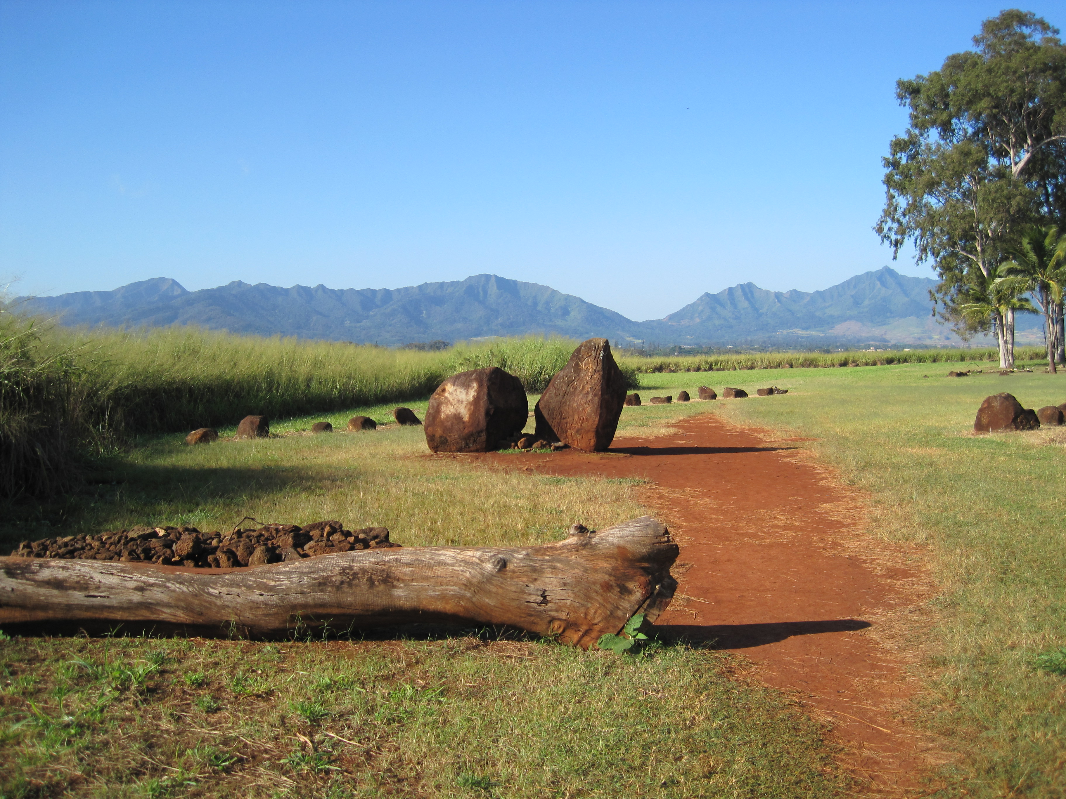 Entrance to Kukaniloko State Park — with Kolekole Pass in background, on Oʻahu. On the National Register of Historic Places on Oahu.